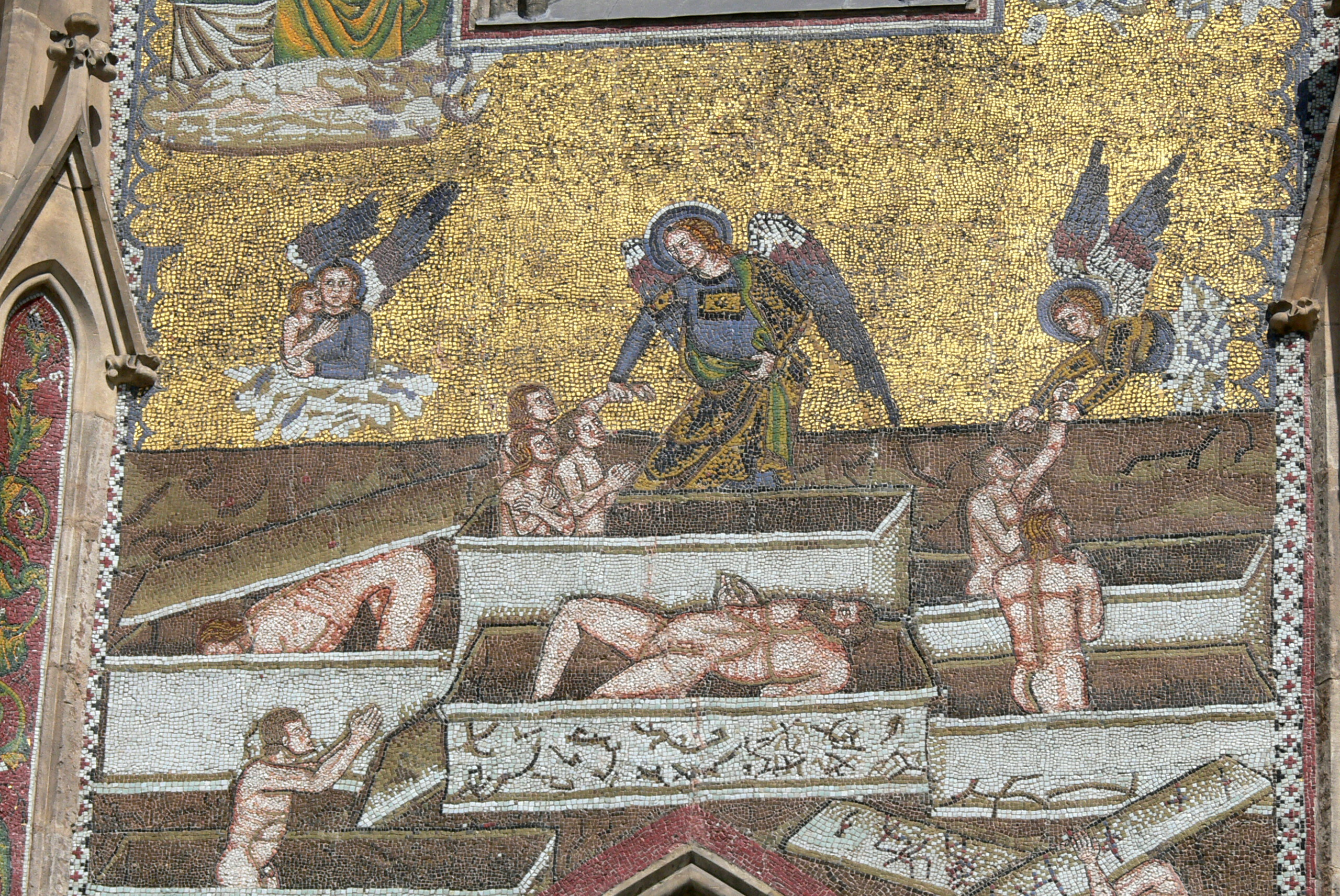 St. Vitus Cathedral ( Prague castle ). Last Judgment mosaic ( 14th century ) at the Golden Gate - Resurrection of the dead.